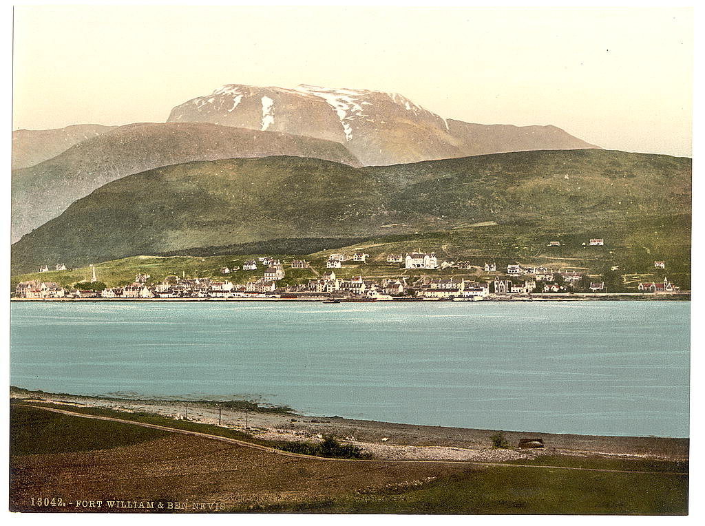 [Fort William and Ben Nevis, Scotland] [between ca. 1890 and ca. 1900]. 1 photomechanical print : photochrom, color. Notes: Title from the Detroit Publishing Co., catalogue J--foreign section. Detroit, Mich. : Detroit Photographic Company, 1905. Print no. "13042". Forms part of: Views of landscape and architecture in Scotland in the Photochrom print collection. Subjects: Scotland--Fort William. Format: Photochrom prints--Color--1890-1900. Rights Info: No known restrictions on reproduction. Repository: Library of Congress, Prints and Photographs Division, Washington, D.C. 20540 USA, Part Of: Views of landscape and architecture in Scotland (DLC) 2001703567 More information about the Photochrom Print Collection is available at Persistent URL: Call Number: LOT 13407, no. 077 [item]